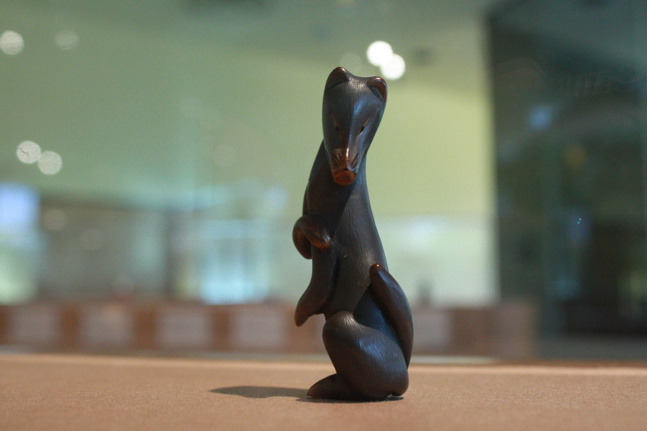 Netsuke of a kitsune